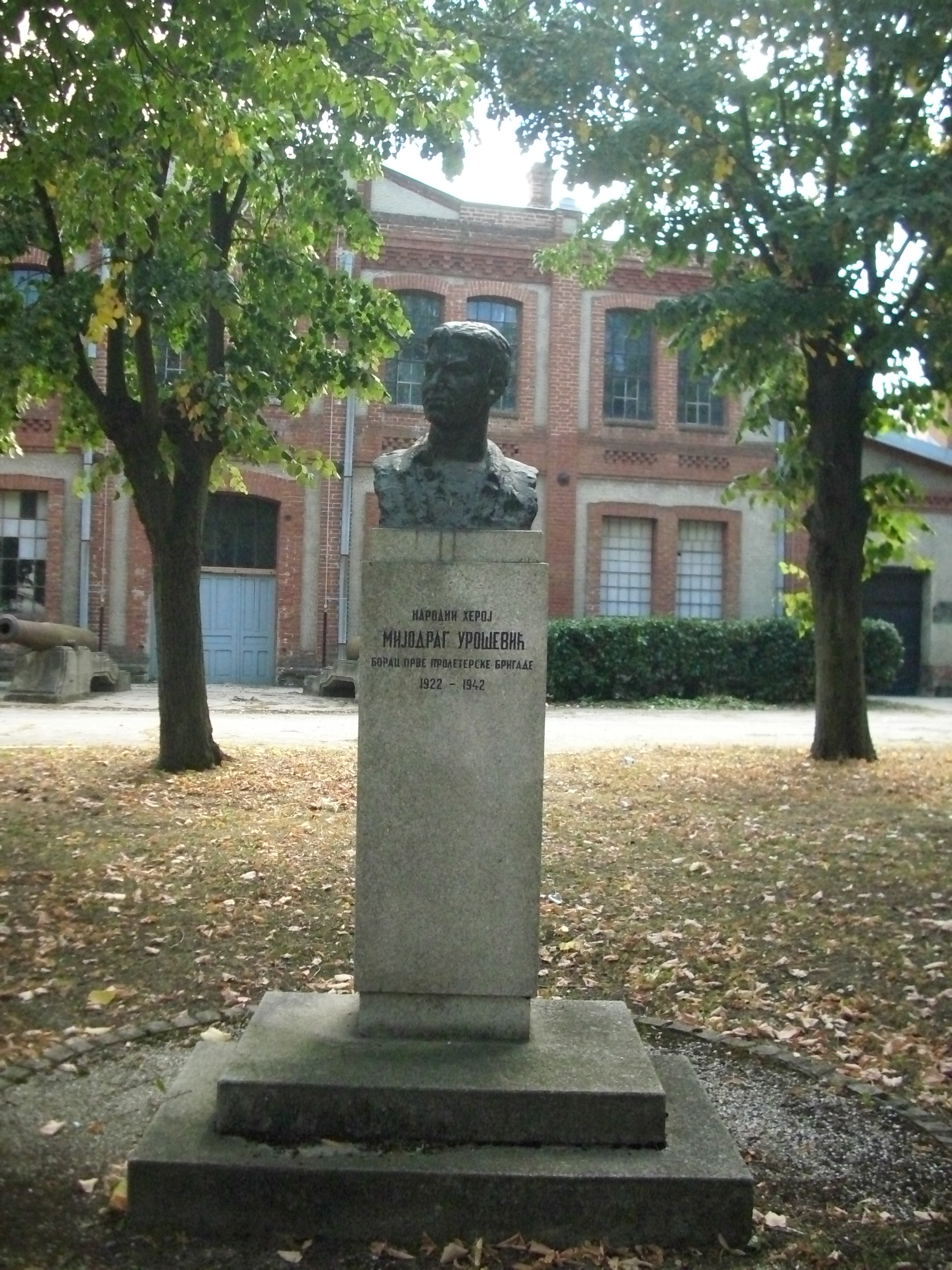 Miodrag Urošević People's Heroe of Yugoslavia. Monument in Kragujevac in "Zastava" area.. September 2010